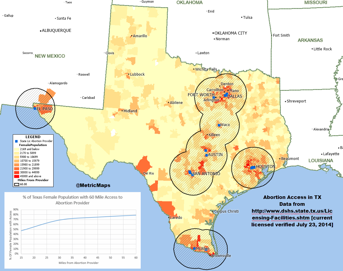 Abortion Access in TX [Verifying Current State Lic Facilities] and Female Pop Proximity